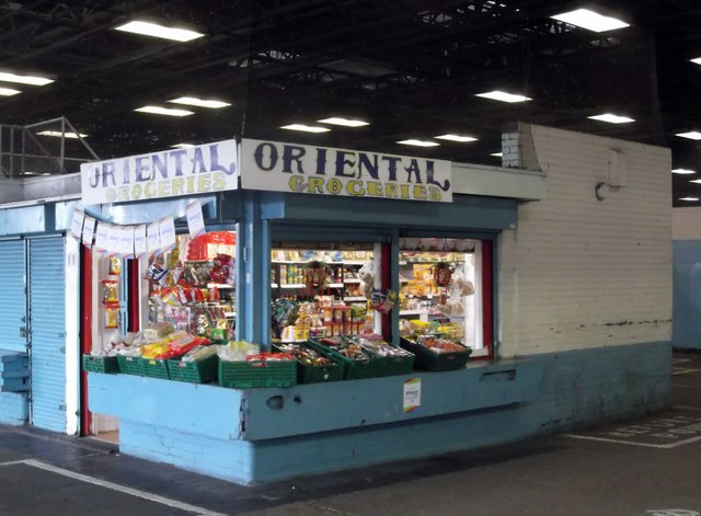 Oriental groceries, Queen's Market, Green Street E13